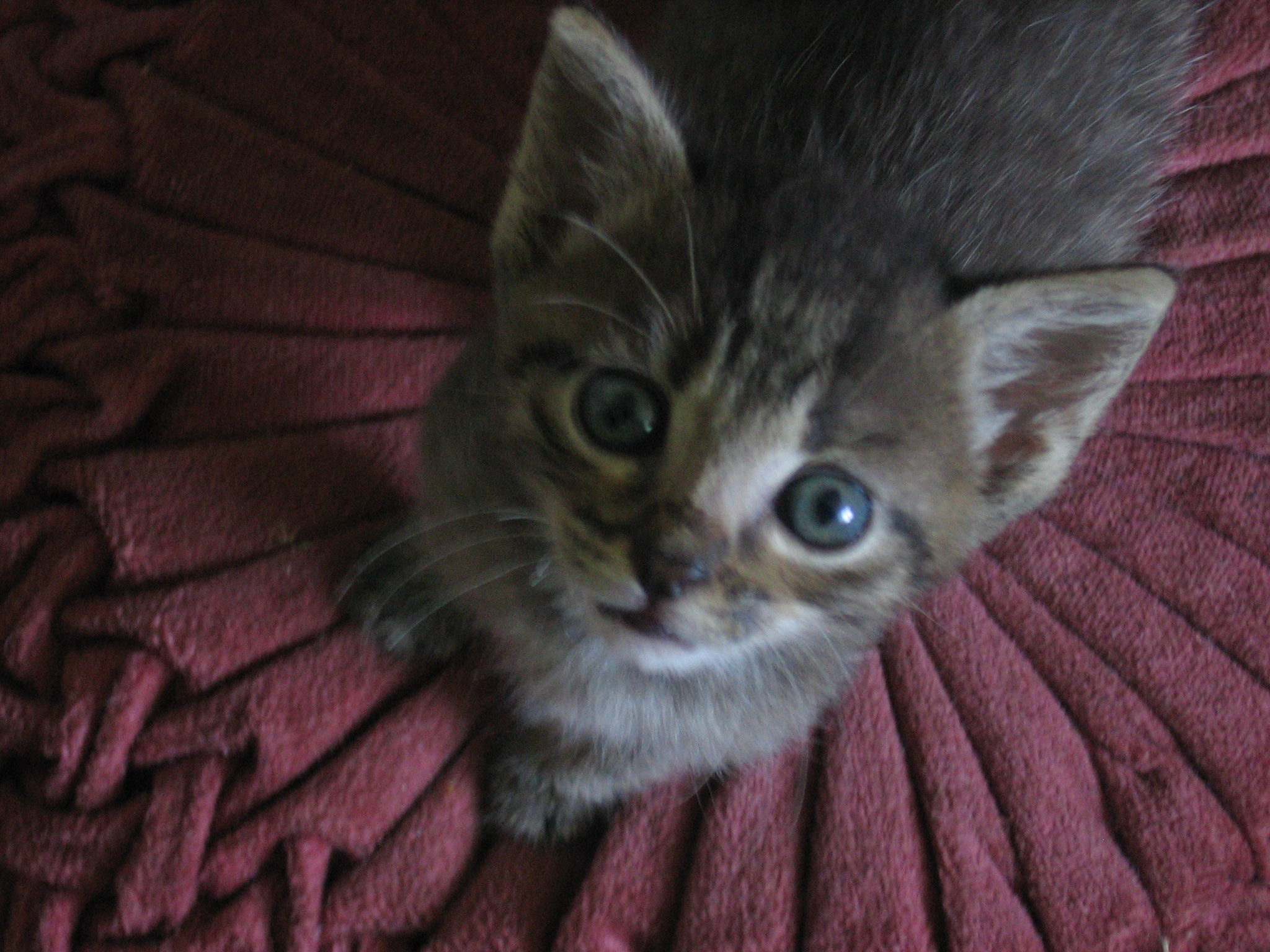 6 weeks old kitten